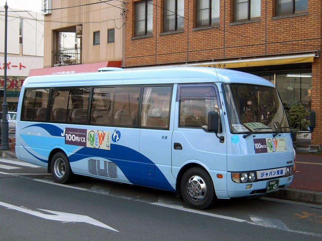 Japan kotsu Mitsubishi Fuso Rosa Shiogama city community bus "New Shionavi 100yen bus"